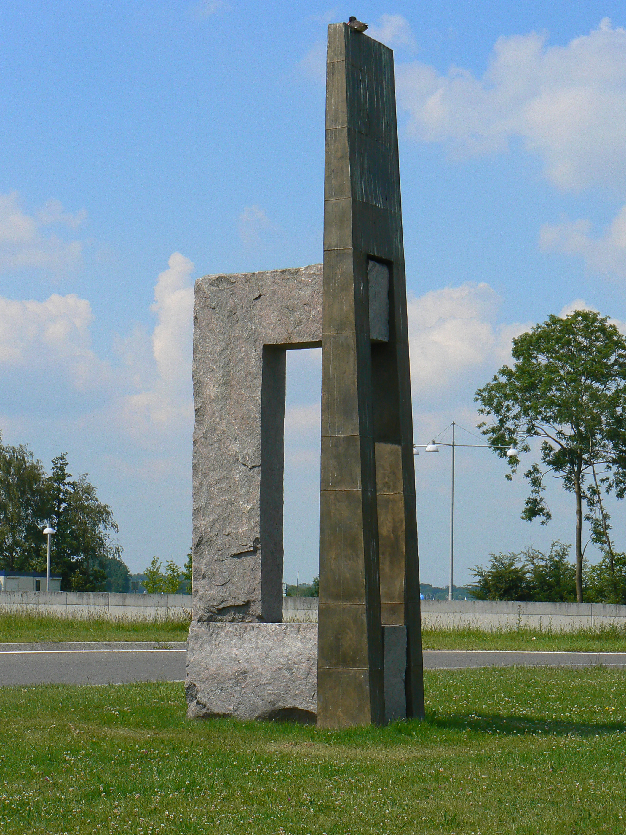 Sculpture "Poort voor Haren (2008) by Herman Bartelds, Nescioplein in Haren, Groningen/The Netherlands